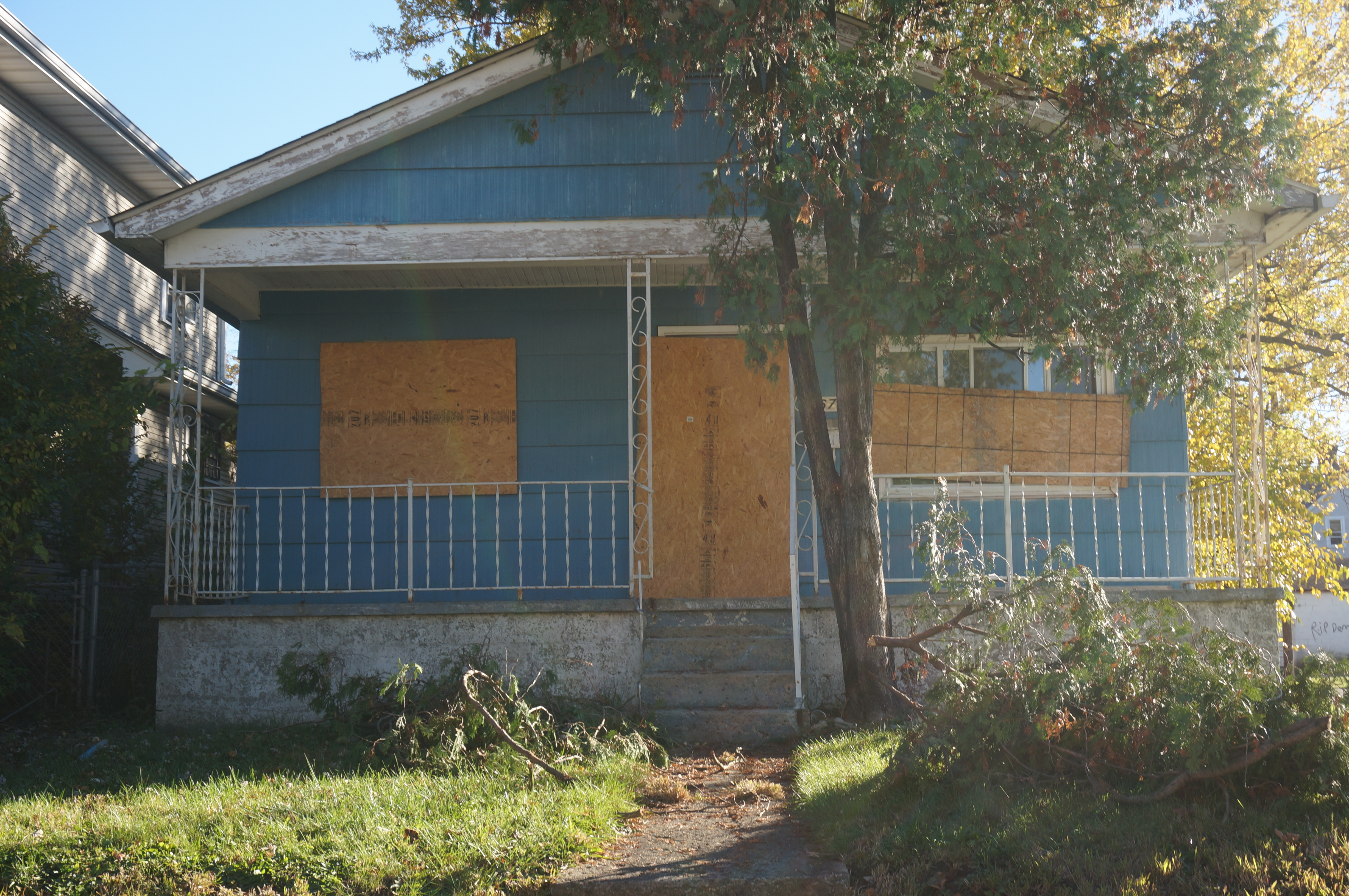 Housing